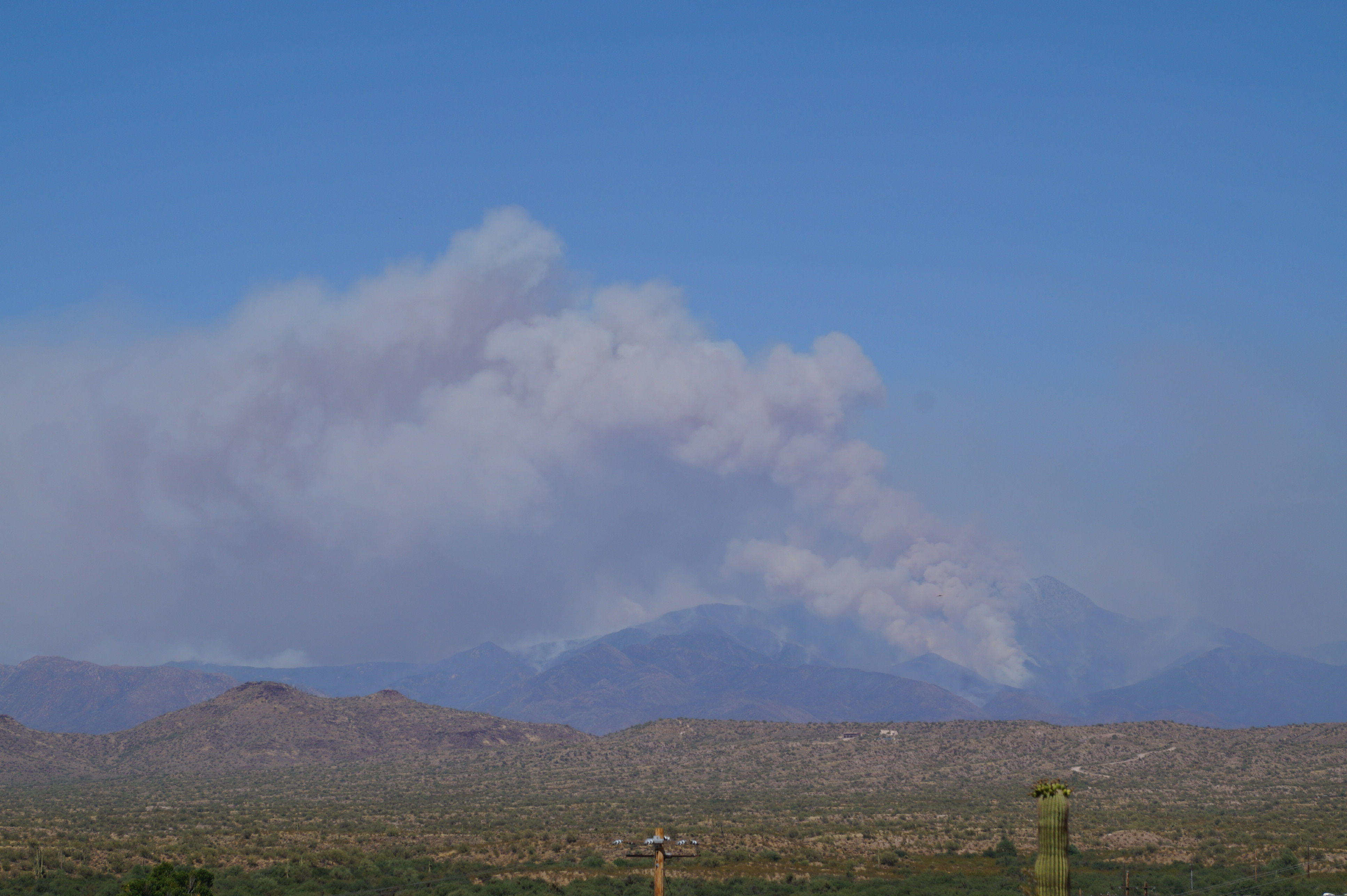 Bush Fire in the Mazatzal Mountains as seen from Fort McDowell, AZ on June 16, 2020 at 15:27 MST.